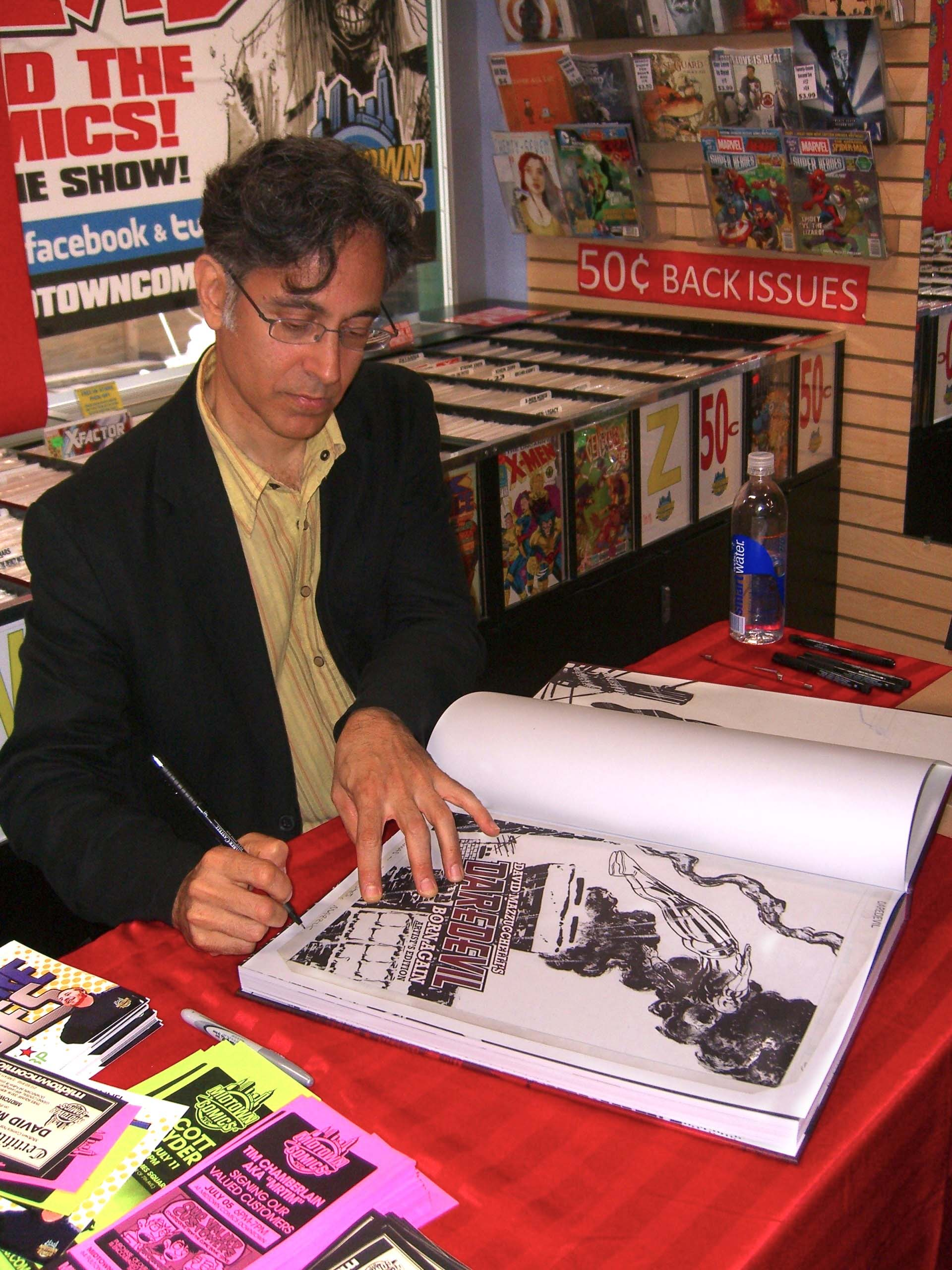 Comic book creator David Mazzucchelli at a June 28, 2012 signing for Daredevil Born Again: Artist's Edition at Midtown Comics Downtown in Manhattan. This photo was created by Luigi Novi. It is not in the public domain, and use of this file outside of the licensing terms is a copyright violation.